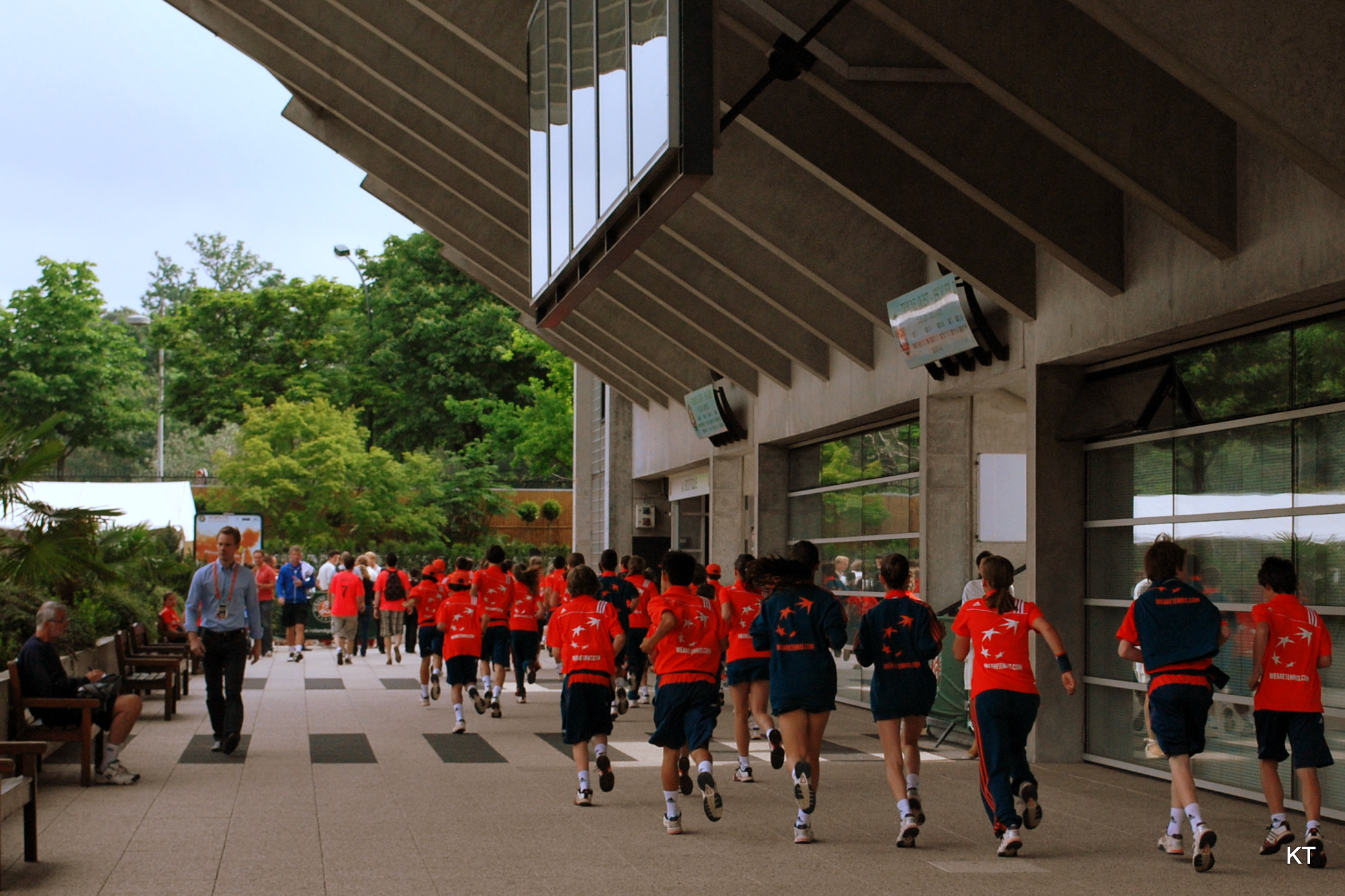 Day 5 of Roland Garros 2012. Ballkids warm up before matchs.